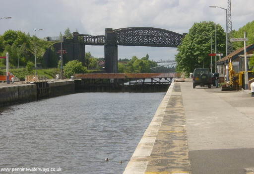 Latchford Lock, Manchester Ship Canal. Looking westwards at Latchford Lock, Warrington, towards Latchford railway bridge.